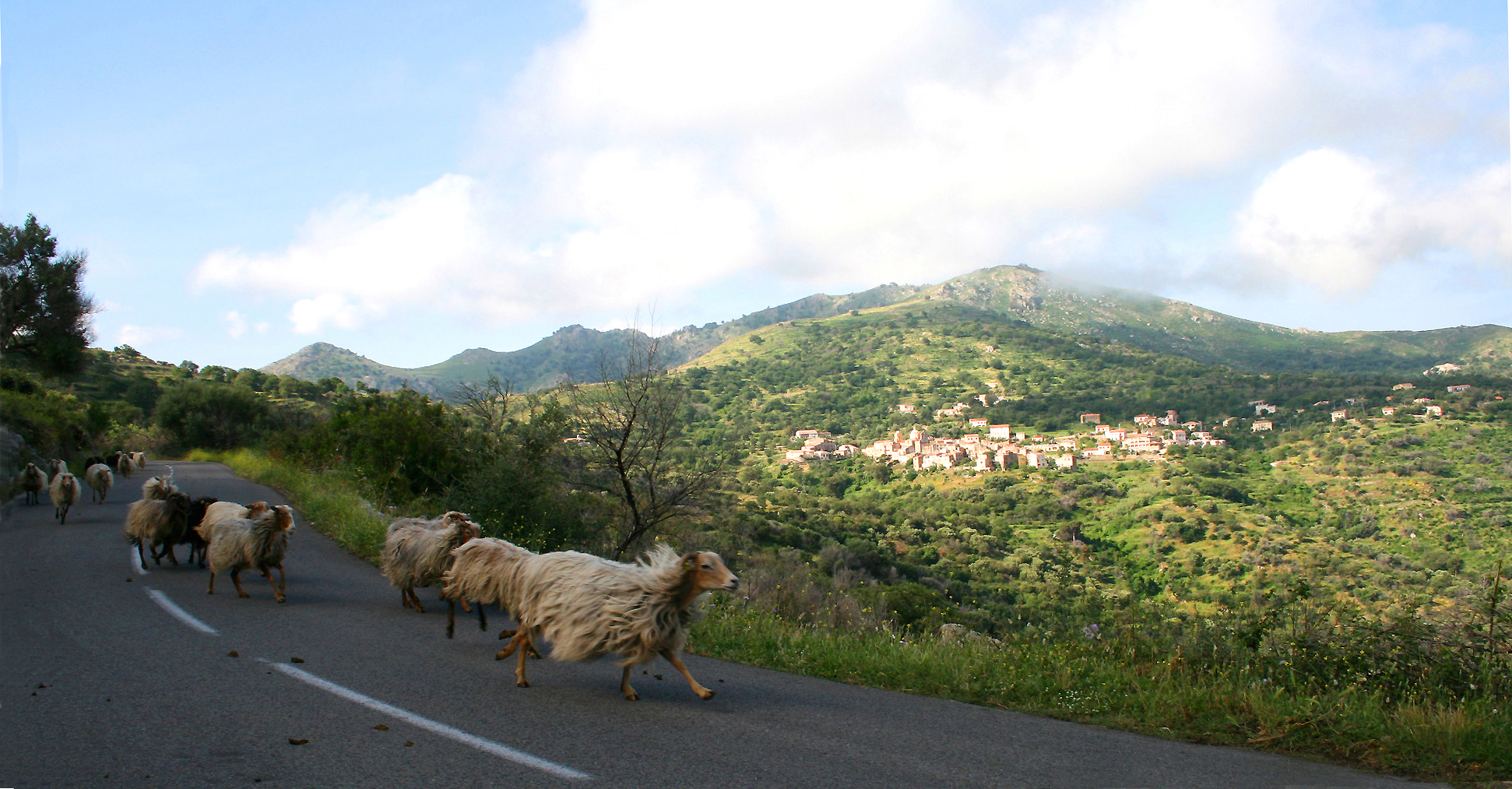 Cateri ( Haute-Corse) - France, muttons in Balagne. Walon: Cateri (Ôte-Corse) - France, bèdots è balagne.